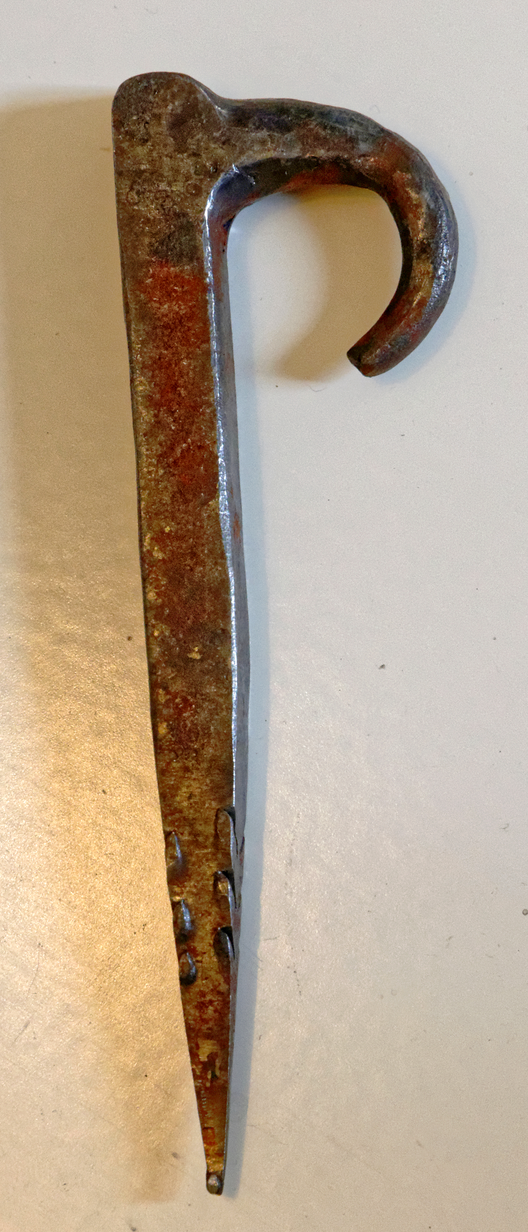 The fire brigade Museum in the Castle Waldmannshofen.